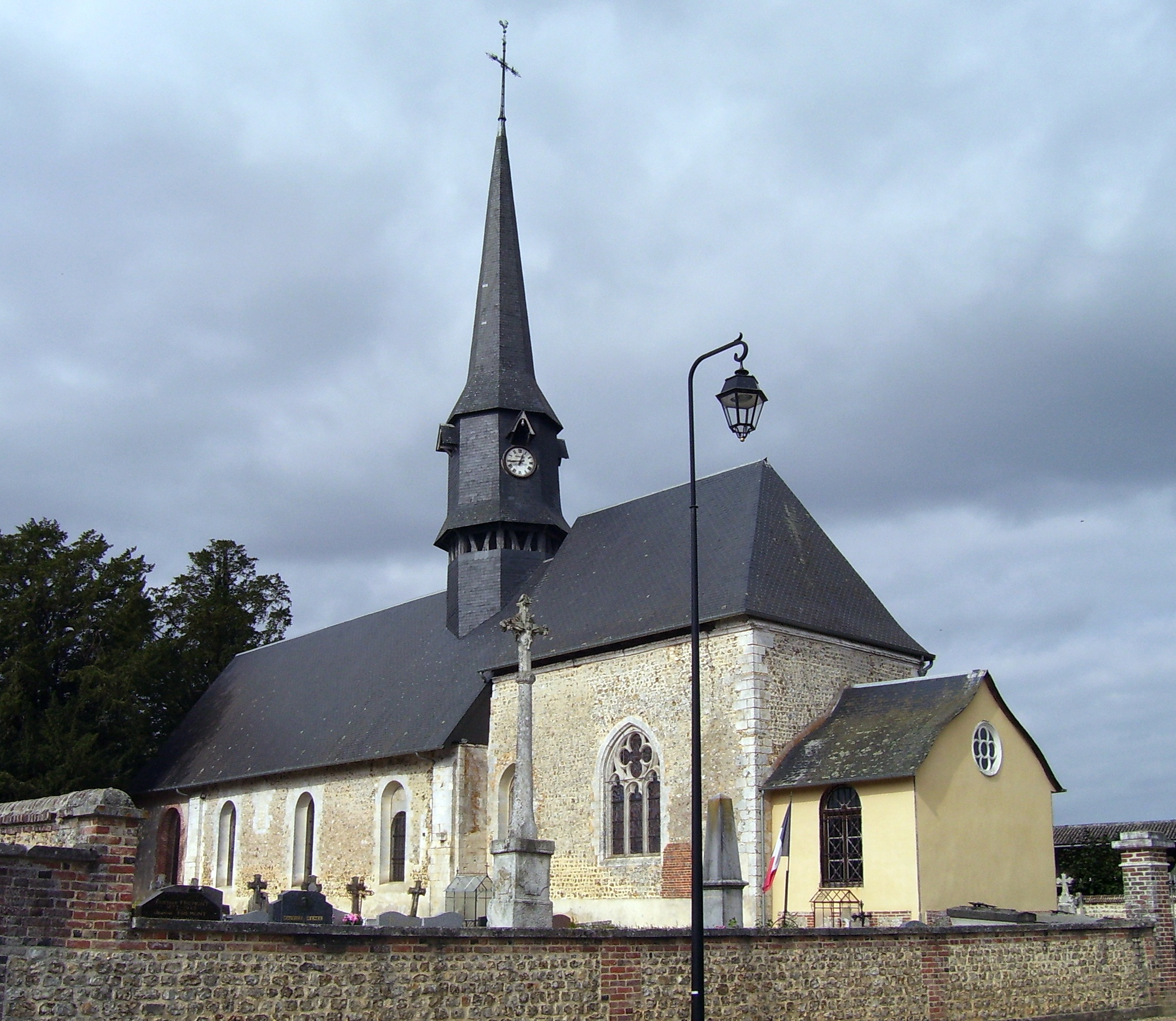 The church Saint-Victor in Saint-Victor-d'Épine in the departement Eure in Haute-Normandie in France, was built in the 16th century and reconstructed at the end of the 19th century.